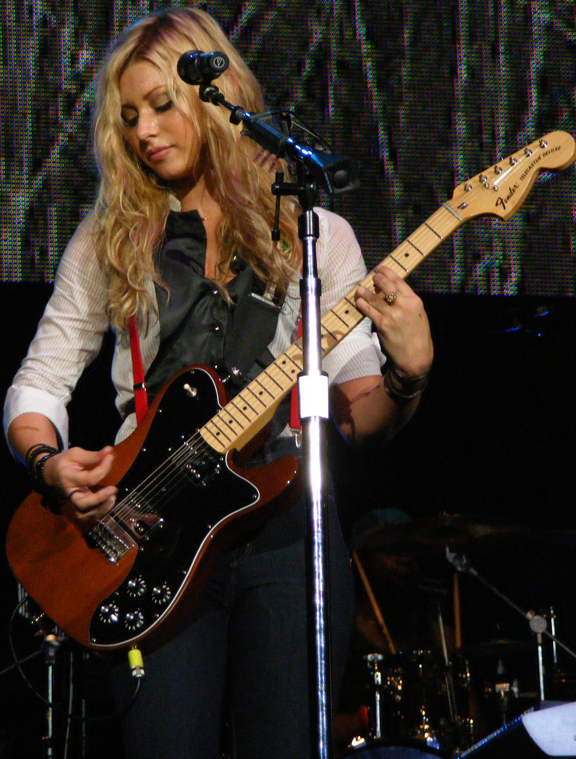 Alyson Renae (Aly) Michalka - August 2007